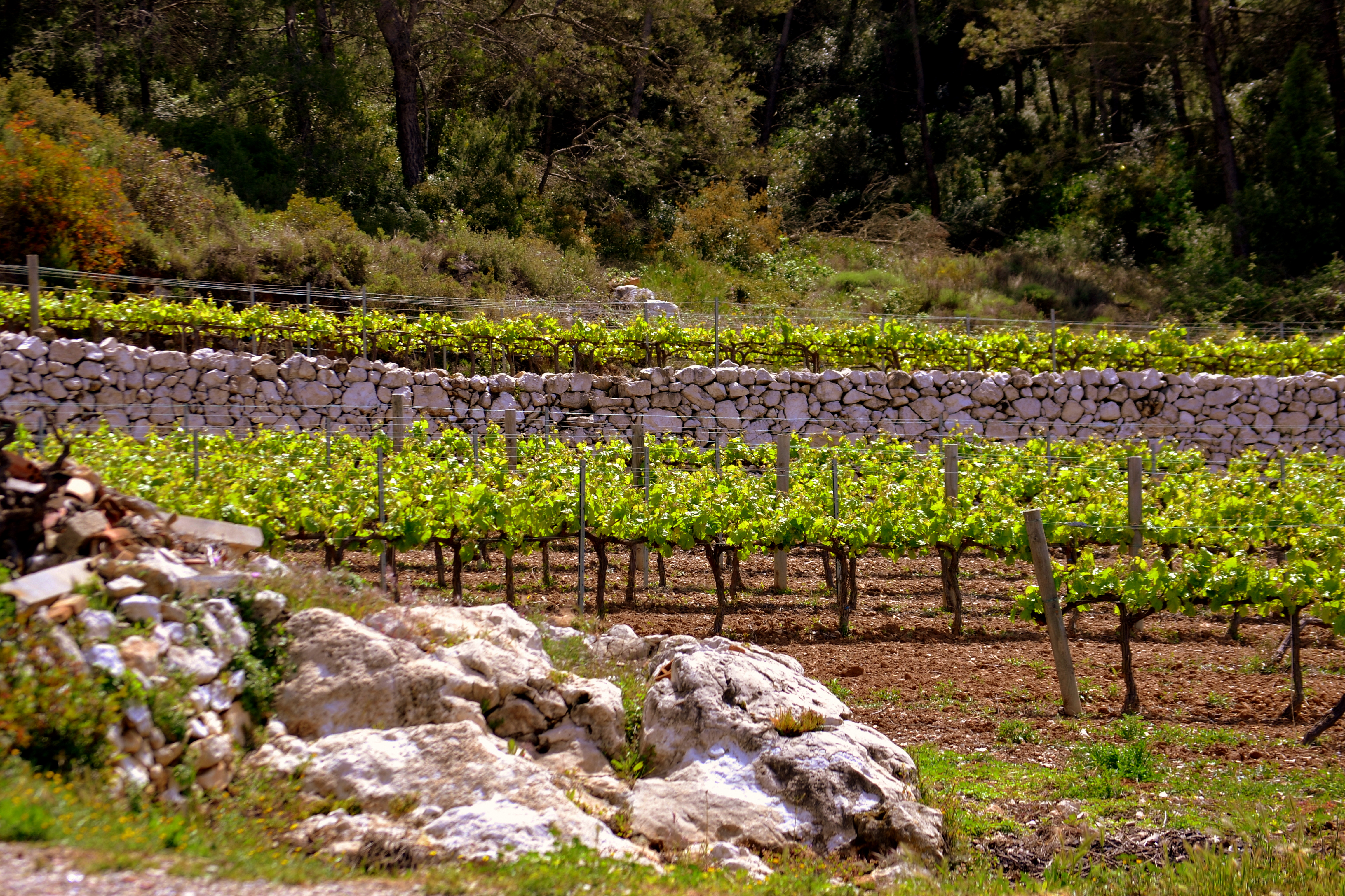 Vineyards in the Spanish wine region of Penedes, Catalonia.